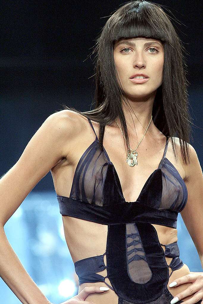 Brazillian model Michelle Alves at the Fashion Rio Inverno 2006.